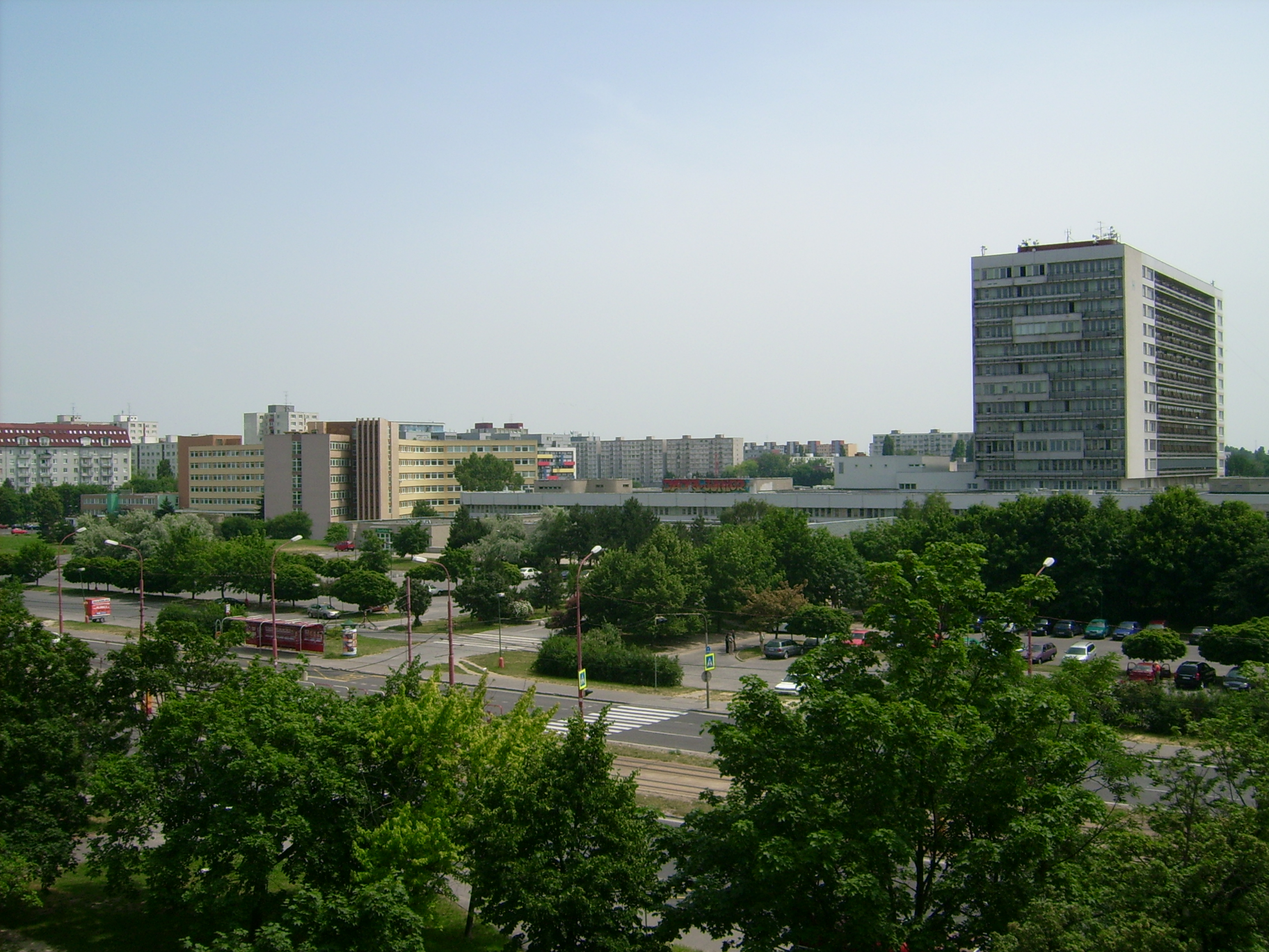 BRATISLAVA - View on Ružinov (near Ružinovská road and lake Štrkovec) and its hospital (Ružinovská poliklinika).